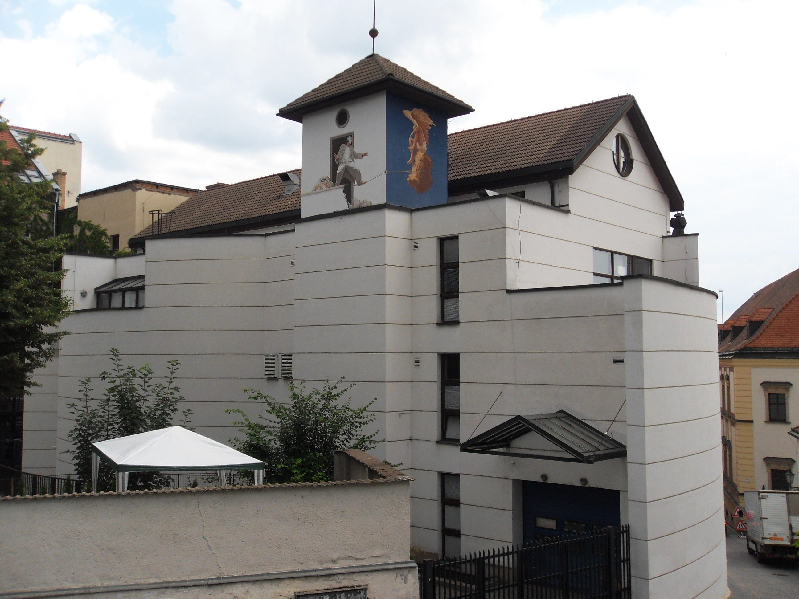 Husa na provázku theatre, Petrská street, Brno, Czech Republic